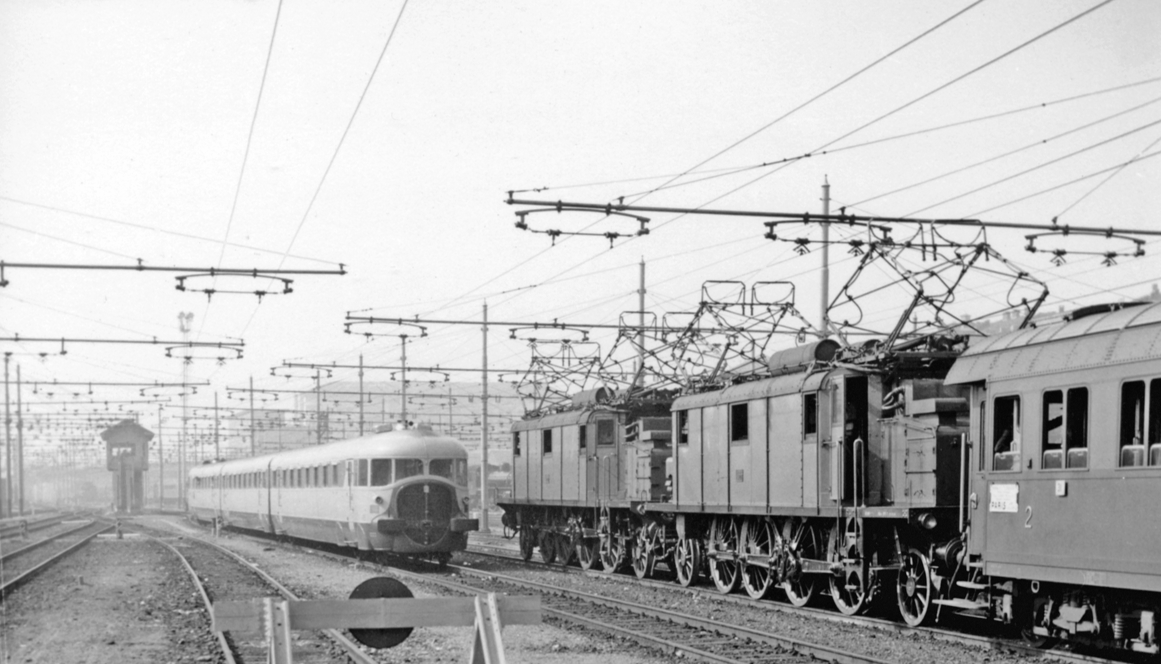 SW view from the platform ends at Torino Porta Nuova in 1959: a Diesel rail-car set (Class ATR.100) is arriving and two 1D1 electric locomotive (Class E.432) are about to leave on an express to Paris by the Fréjus railway.